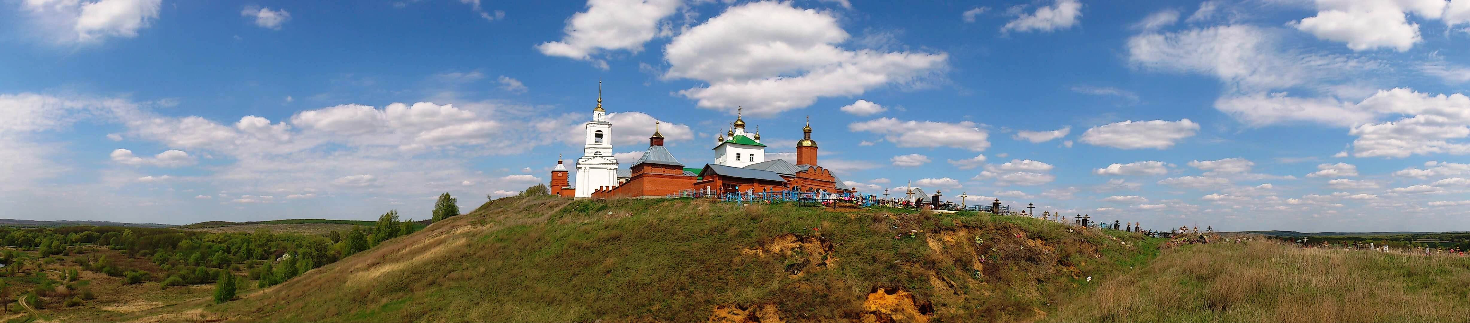 Panorama of St. Demetrius Monastery, located near Skopin town (Ryazan region, Russia)